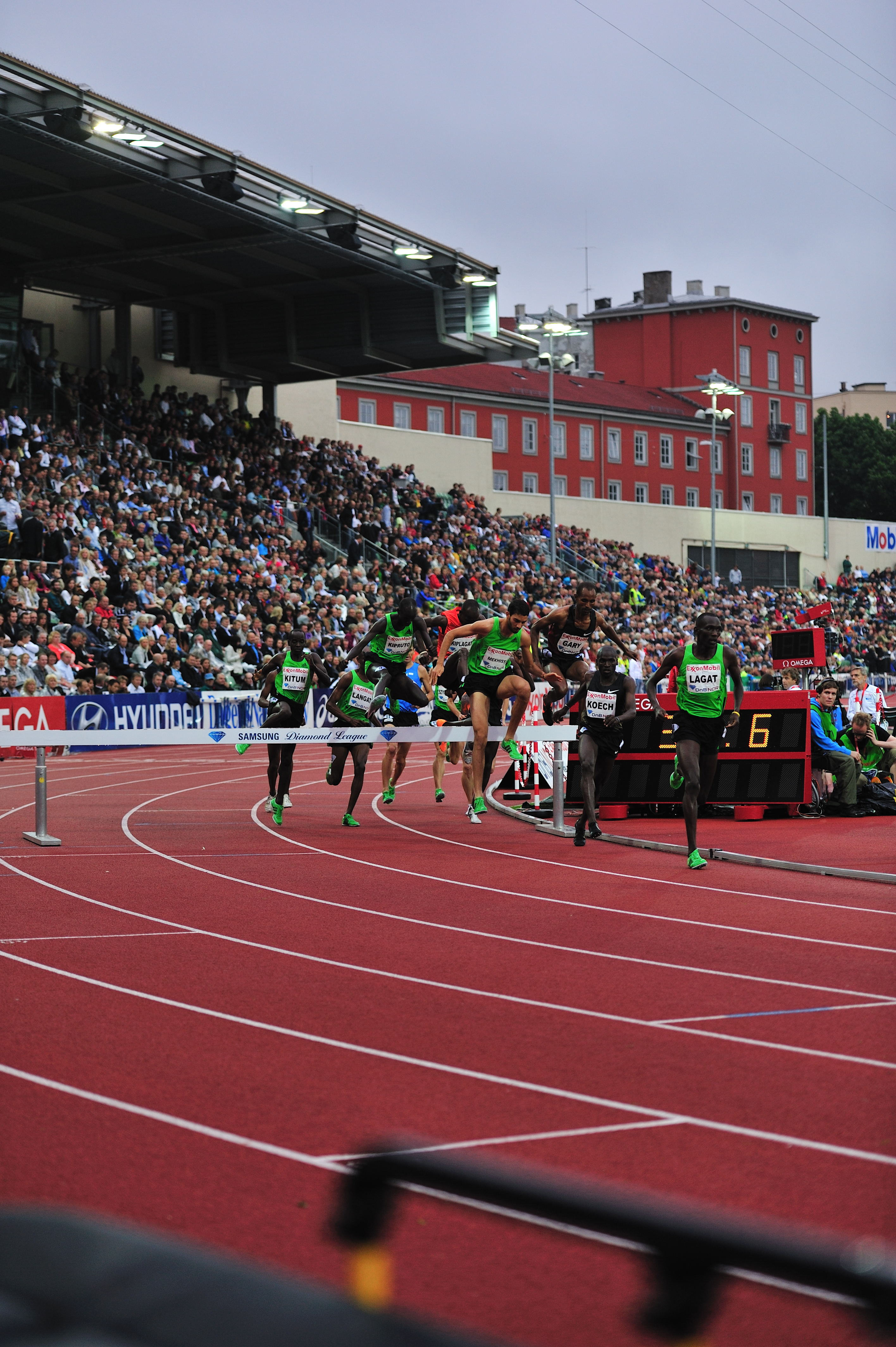 3000 m hurdles, Diamond League Bislett Games 2011. Silas Kosgei Kitum, Tarik Langat Akdag, Brimin Kiprop Kipruto, Benjamin Kiplagat, Mahiedine Mekhissi-Benabbad, Roba Gari, Haron Lagat